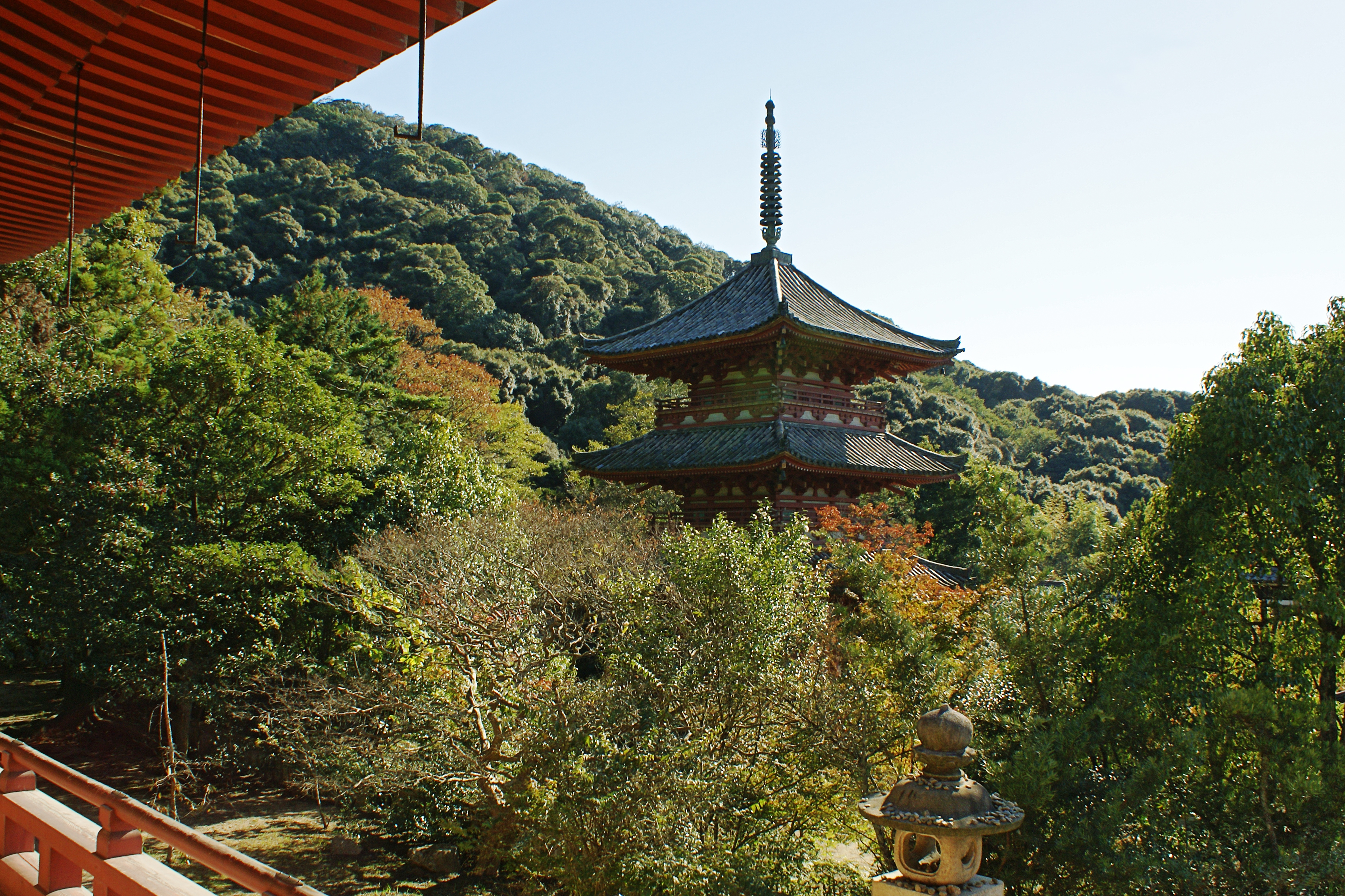 Taisanji Buddhist temple in Kobe, Hyogo prefecture, Japan Opening in 716. This photograph is the Pagoda. It was built in 1688.